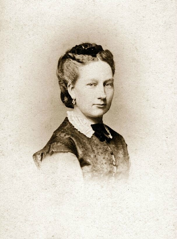 Maria Anna Fernanda, infanta of Portugal (1843–1884), daughter of Queen Mary II of Portugal, wife of Crown Prince George of Saxe